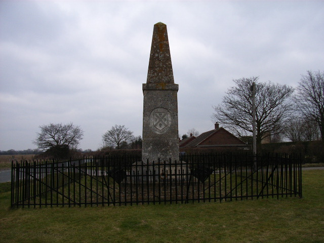 Monument to John Hampden near Chalgrove, Oxfordshire. Hampden was a Parliamentarian army commander who was mortally wounded nearby in 1643 in the English Civil War Battle of Chalgrove Field.